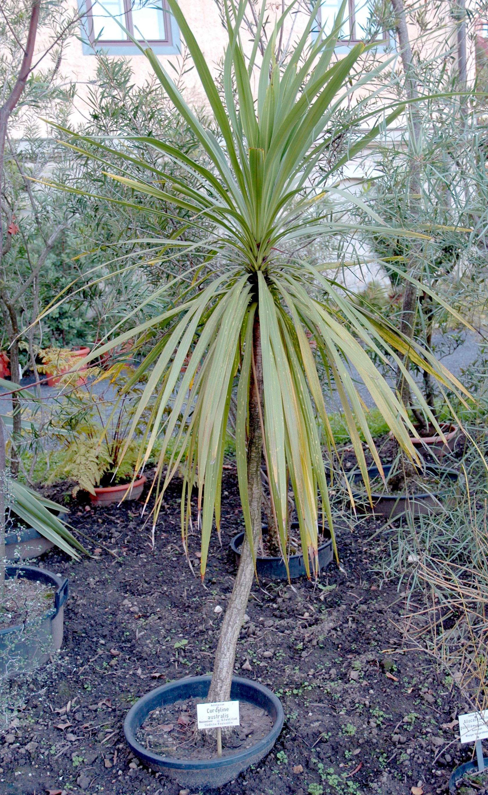 Cordyline australis at Jena Botanical Garden, Germany